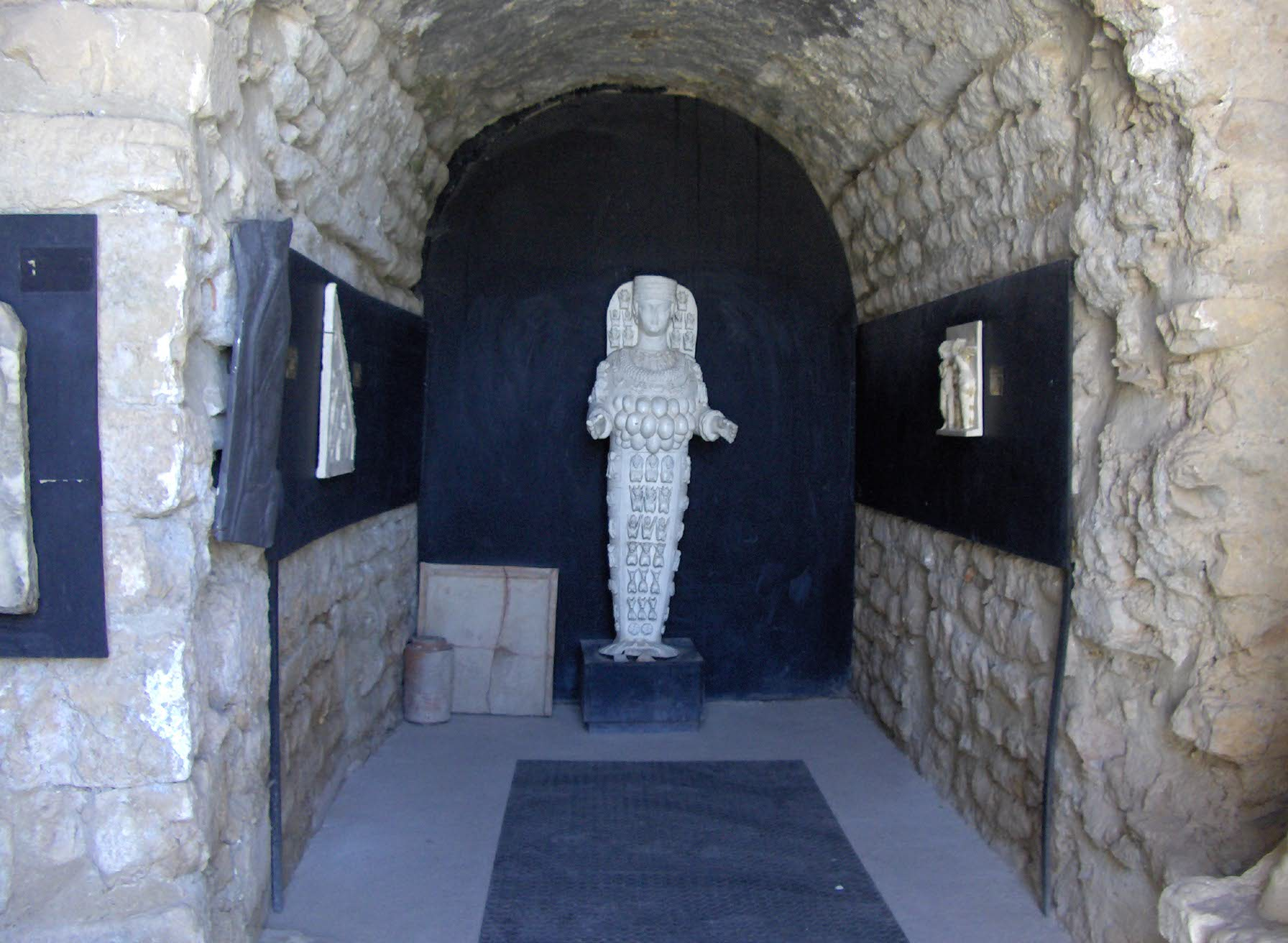 Artemis of Ephesus. 1st century CE Roman copy of the cult statue of the Temple of Ephesus. Statue in the Museum of Efes (Turkey).